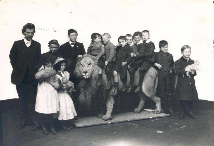 A group of blind children from Sunderland School for the blind and their teacher at Sunderland Museum. 6 boys are sitting on wallace, the mounted lion and several are holding mounted animals. “To them, their fingers are eyes” From 1913, John Alfred Charlton Deas, a former curator at Sunderland Museum, organised several handling sessions for the blind, first offering an invitation to the children from the Sunderland Council Blind School, to handle a few of the collections at Sunderland Museum, which was ‘eagerly accepted’. Ref: TWCMS: K13572 view the set (Copyright) We're happy for you to share this digital image within the spirit of The Commons. Please cite 'Tyne & Wear Archives & Museums' when reusing. Certain restrictions on high quality reproductions and commercial use of the original physical version apply though; if you're unsure - for image licensing enquiries please follow this link